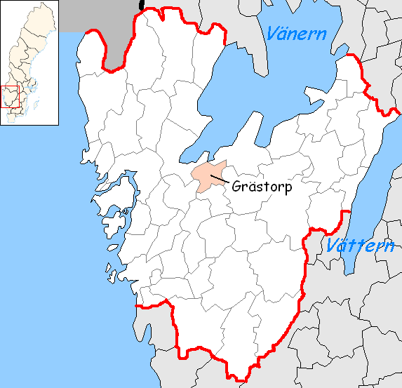 Grästorp Municipality in Västra Götaland County Designed by me. Mere outlines are a PD source from